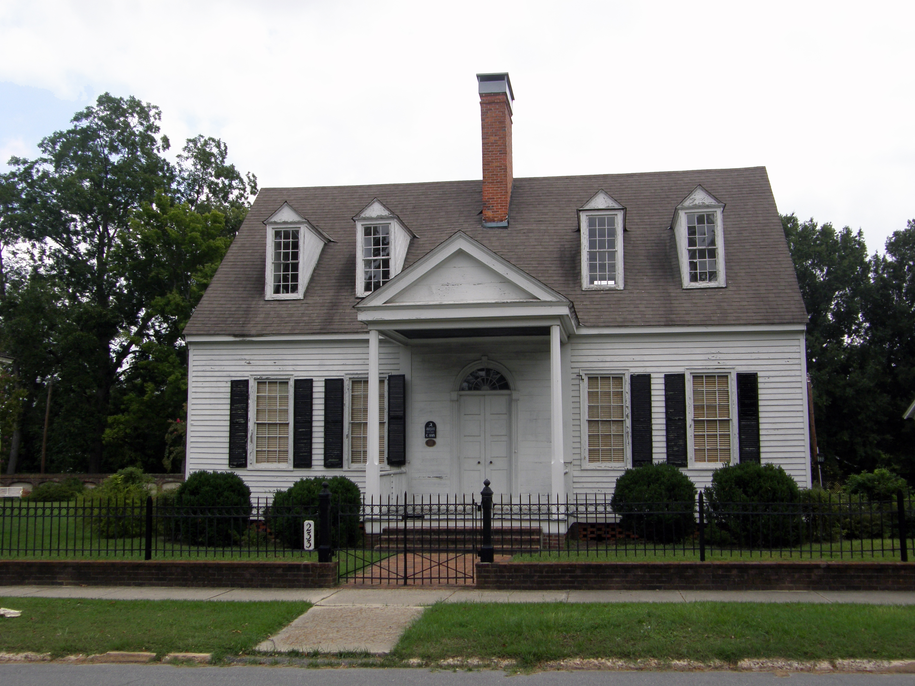 The Baker-Haigh-Nimocks House was built in eastern NC in 1804. It now stands on Dick Street in Fayetteville, NC.